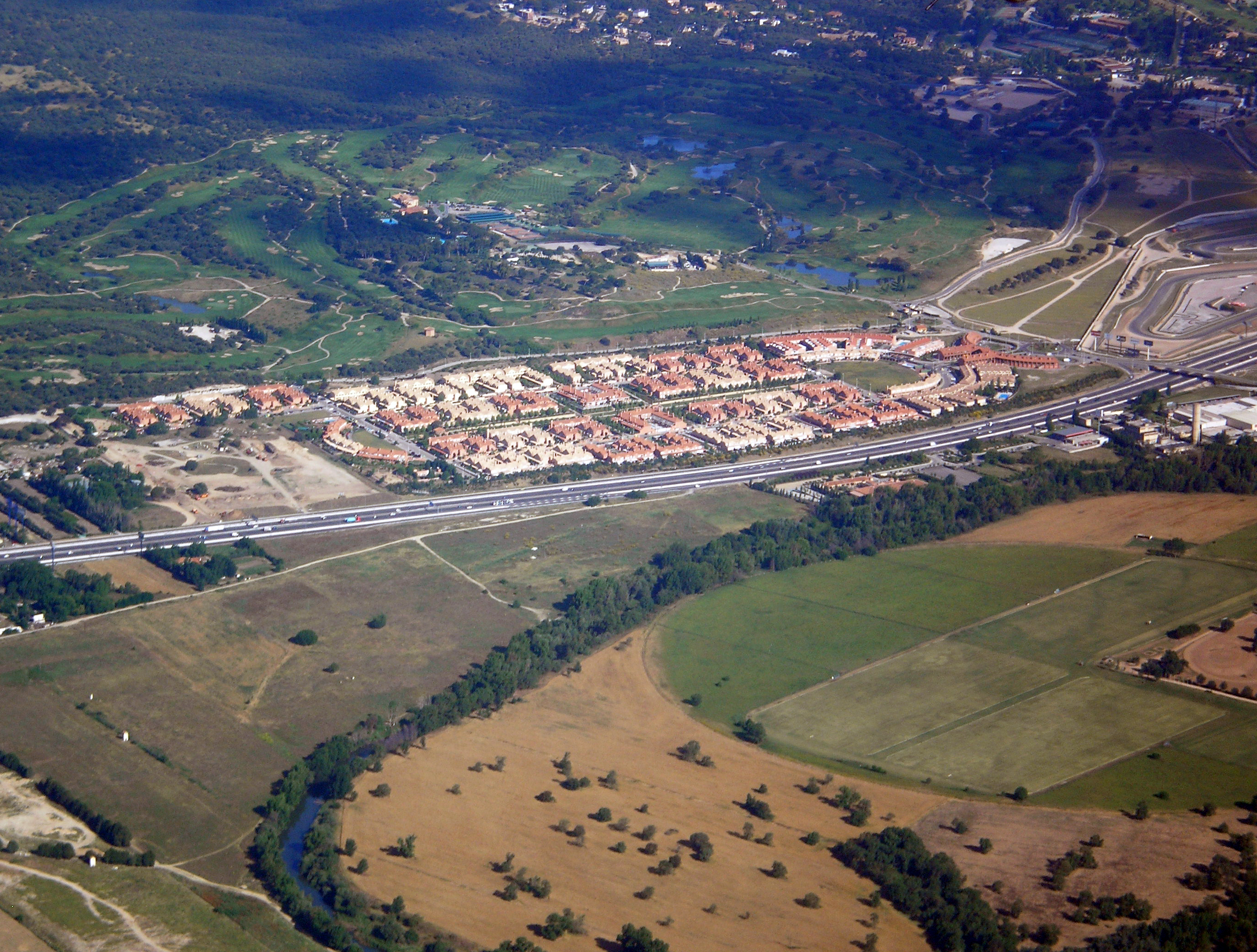 Club de Campo, a neighbourhood in San Sebastián de los Reyes, Madrid, España. Jarama circuit, river Jarama, Highway A-1, a golf course and Mount Pesadilla can also be seen.